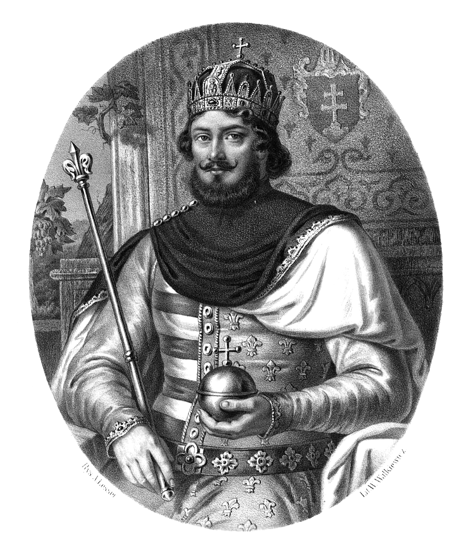 Louis I of Hungary and Poland